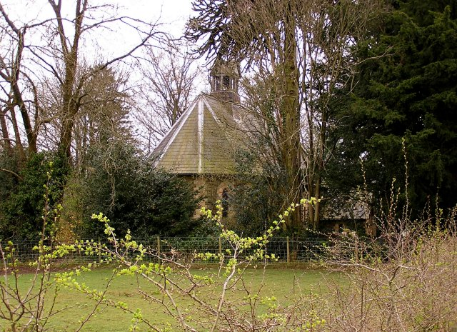 Nant-glas Church In a grid that is mostly marshy farmland.